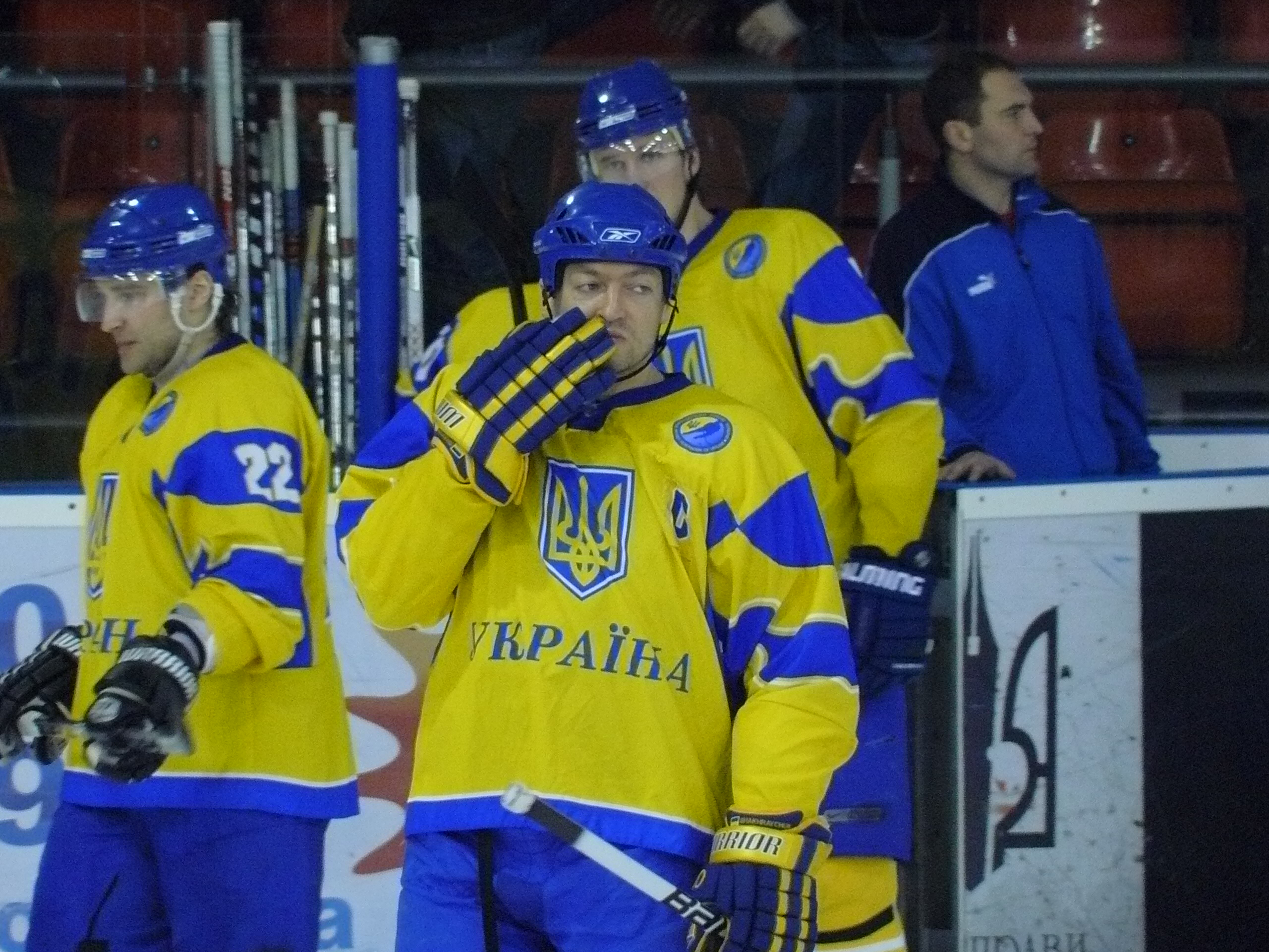 Forward Vadym Shakhraychuk #10 of the Ukraine during the friendly game against the Poland on April 10, 2010 at the Terminal Arena in Brovary, Ukraine. Ukraine won the game 2:1.